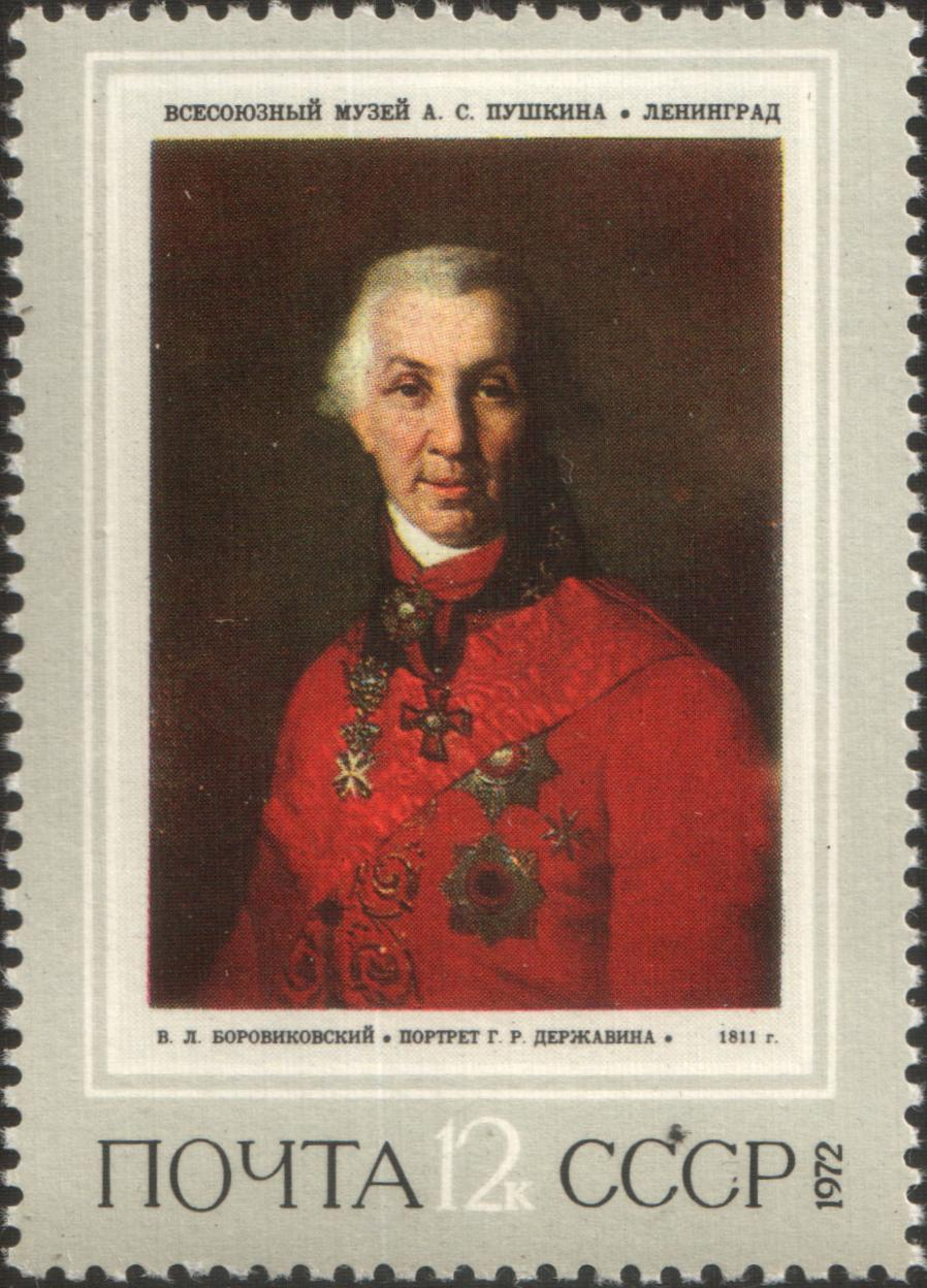 USSR stamp